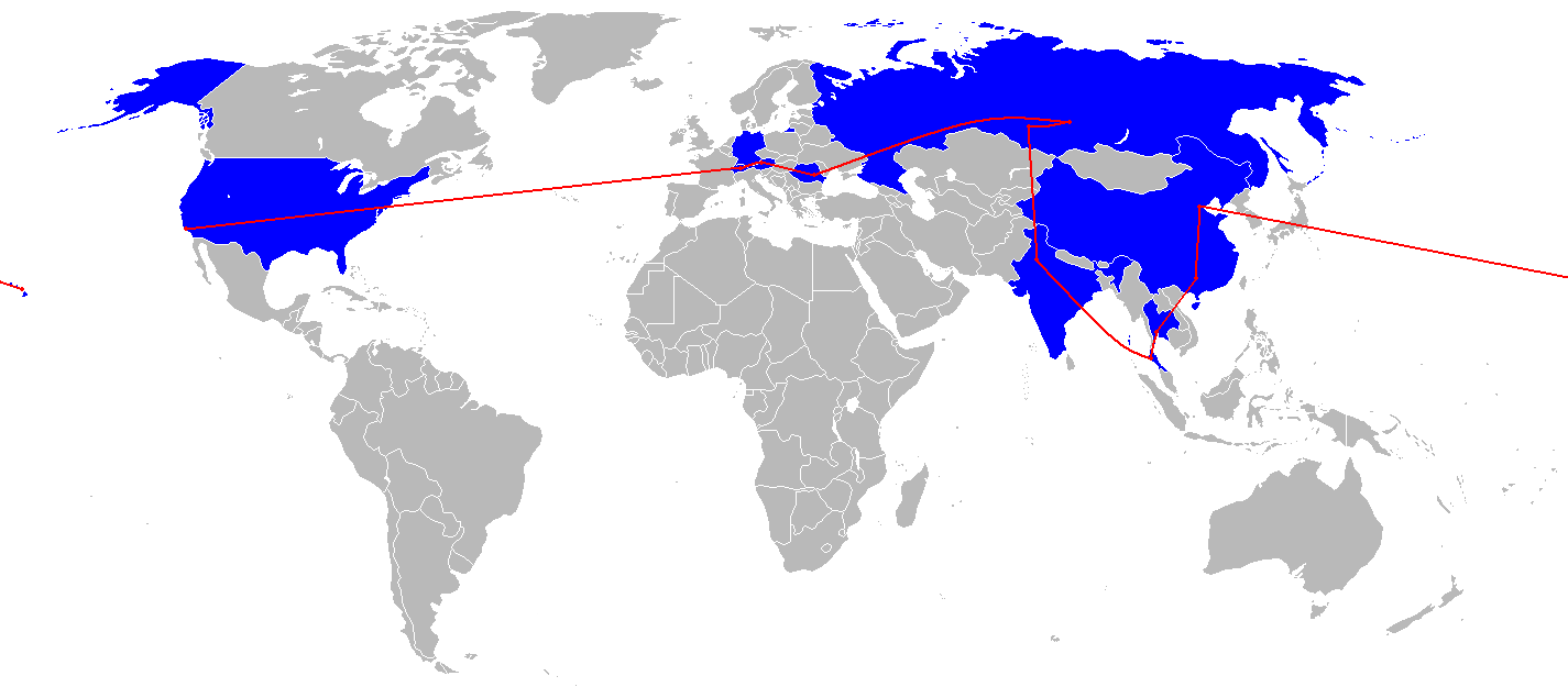 The Amazing Race Mapa